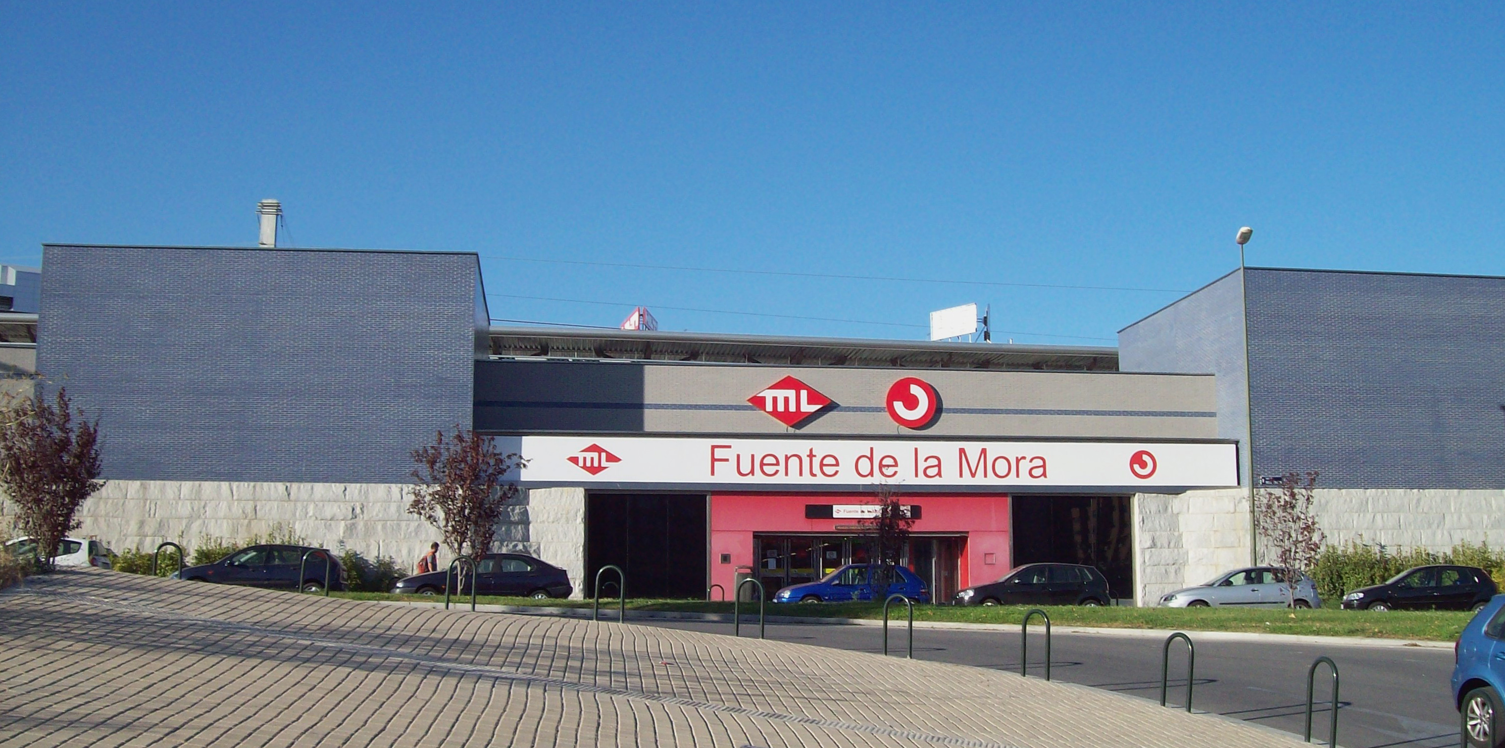 South façade of Fuente de la Mora Metro Ligero and Cercanías station in Madrid (Spain).